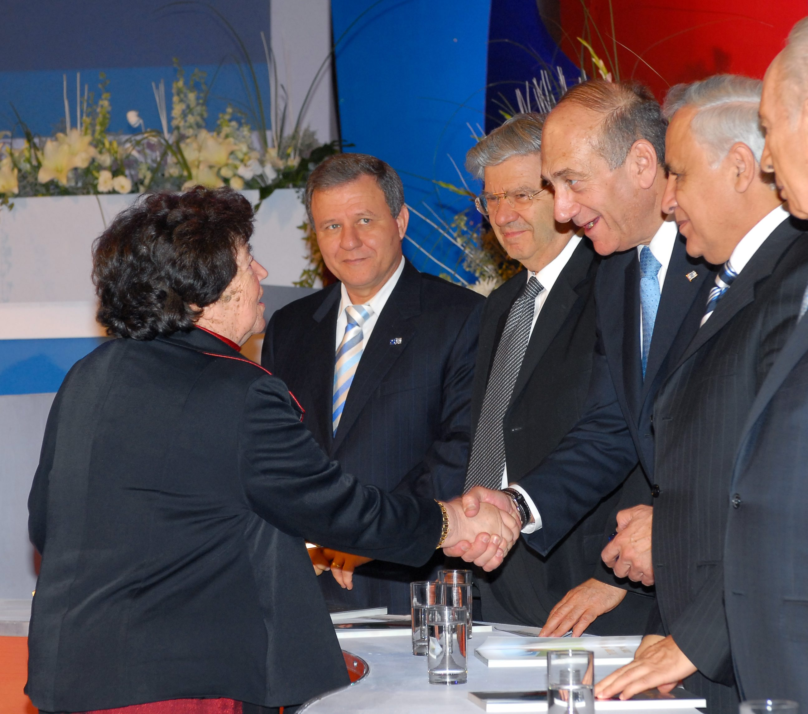 Israel prize award ceremony on Israel's 58th independence day. l- prof. Miriam Ben Peretz receiving the prize. 2nd r- pres. Moshe Katsav. 3rd r- interim p.m Olmert.